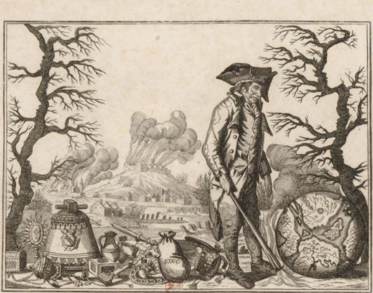 Custine brought the revolution to the Rhineland through proclamation and taxation